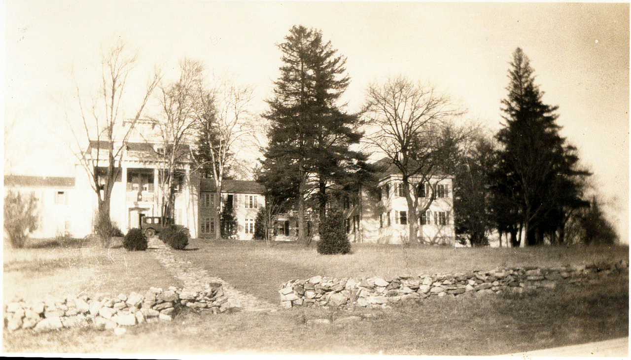 The former Dr. Grafton Marsh Bosley estate 'Uplands', Towson MD. abt 1930 after becomming the Presbyterian Home of Maryland